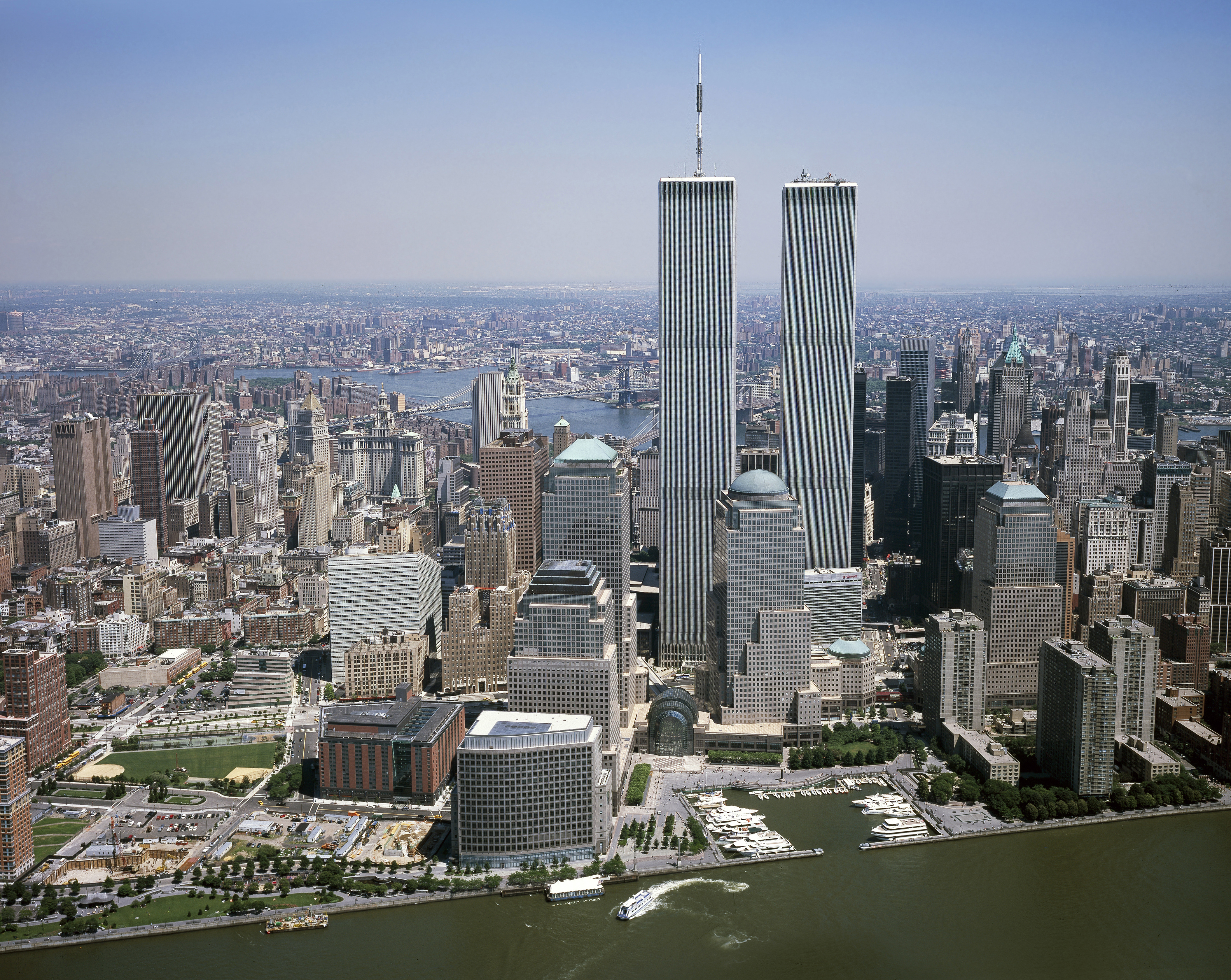 Battery Park City and the former Twin Towers at the World Trade Center NYC